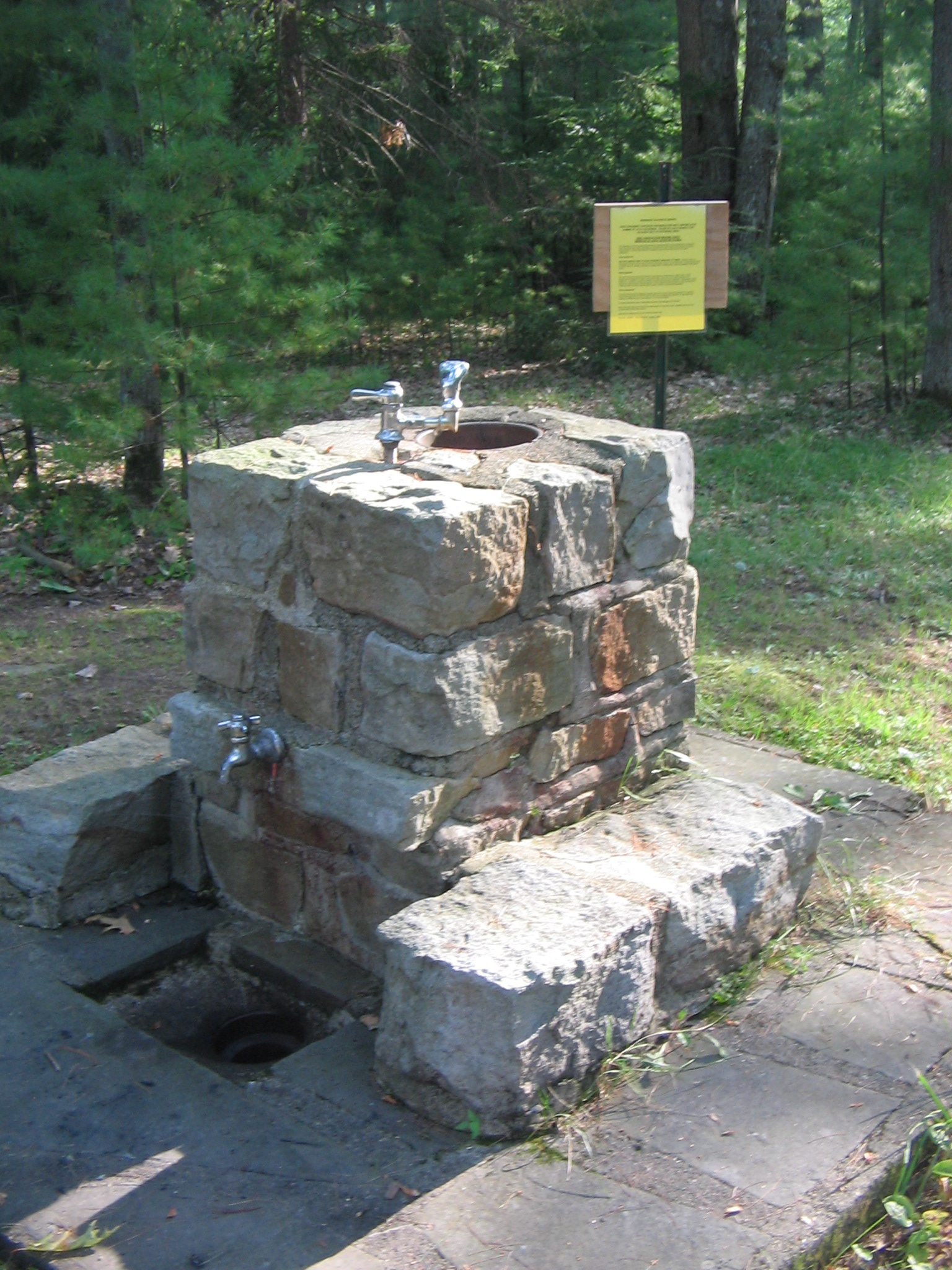 CCC-built Drinking Fountain (near Picnic Shelter 1) in Colton Point State Park in Shippen Township, Tioga County, Pennsylvania, United States.